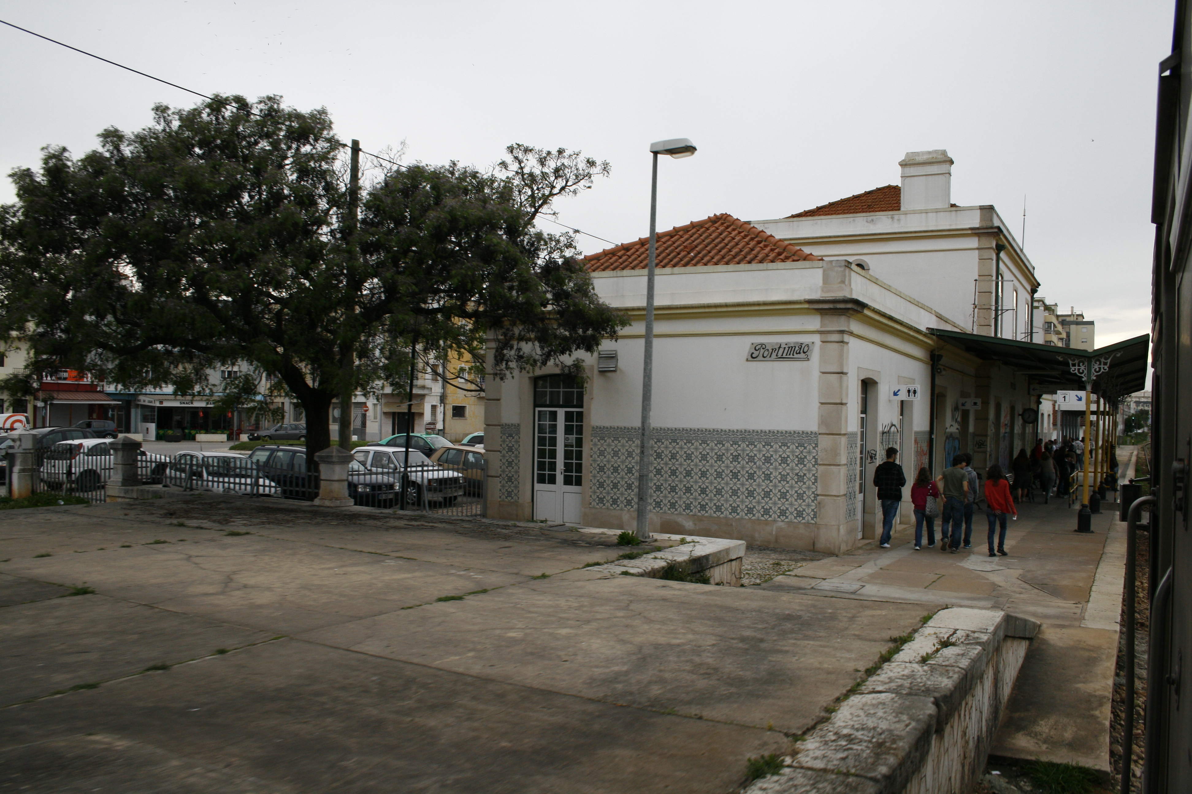 Portimão Train Station, in the Algarve Line, in southern Portugal.